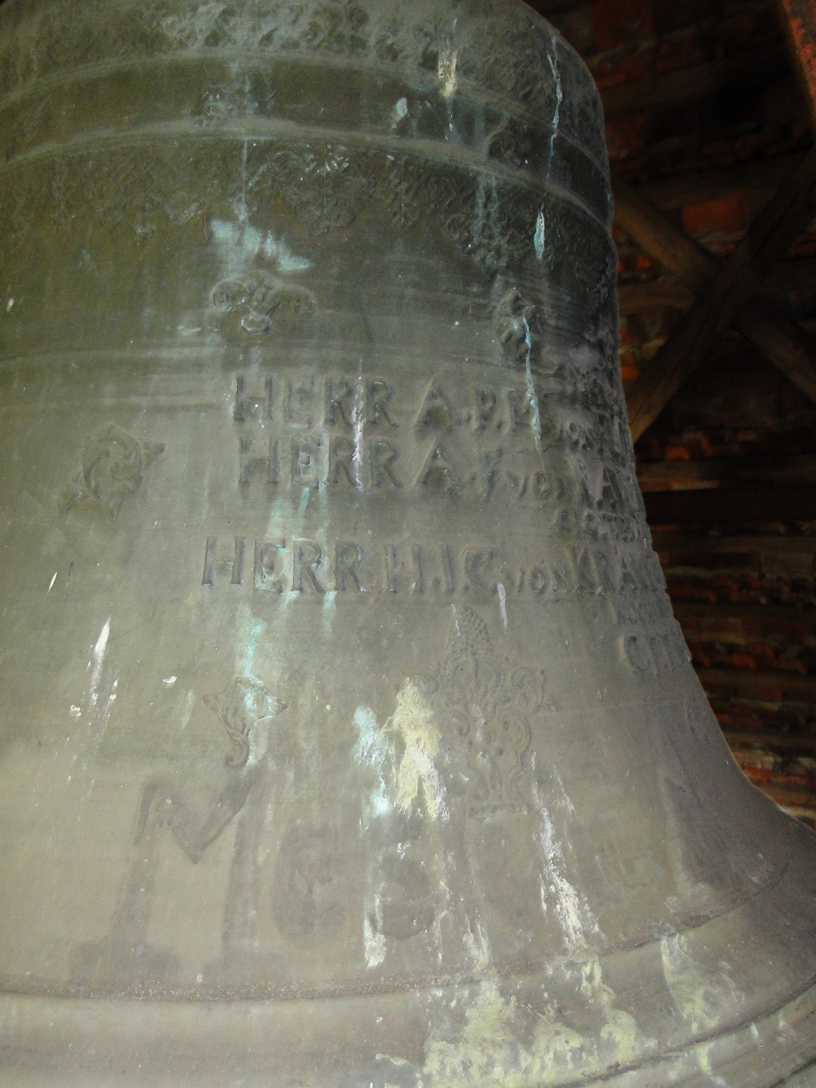 Church bell in Hohen Pritz, district Ludwigslust-Parchim, Mecklenburg-Vorpommern, Germany